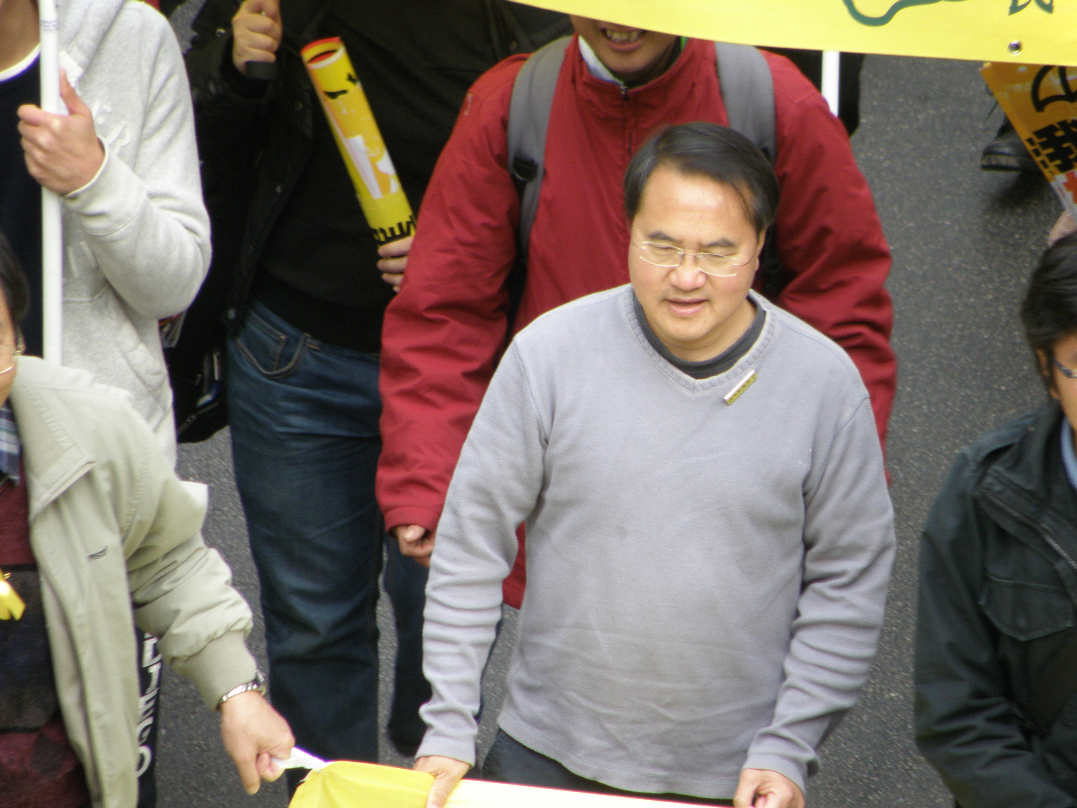 Lee Wing-tat, member of the Legislative Council of Hong Kong.